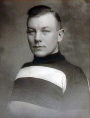 Reproduction of studio picture of Broadbent for team picture after 1921 Stanley Cup win.